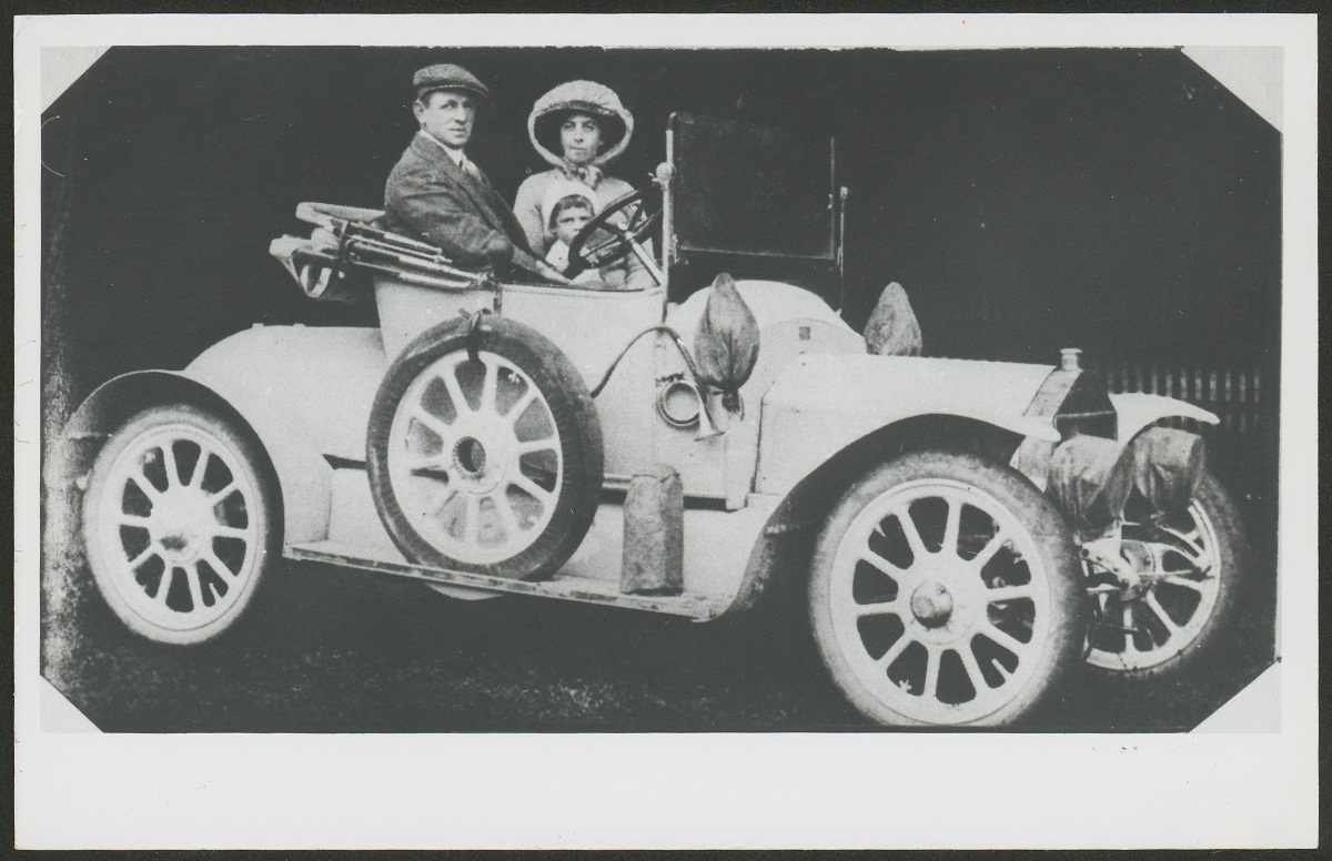 James Murray Helpmann and Mary Helpmann nee Gardiner, with their son Robert, who became world famous dancer and choreographer, Sir Robert Helpmann. Held at State Library of South Australia, call no: B 21404